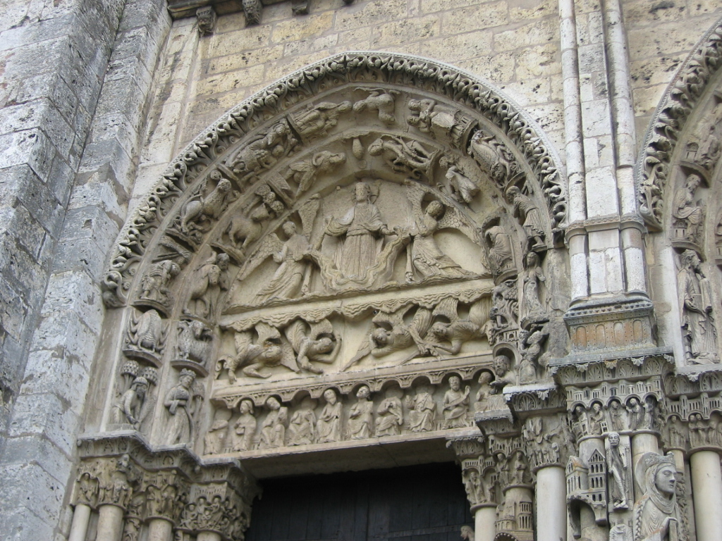 Portail gauche du porche occidental de la cathédrale de Chartres. This is the left or Ascension tympanum, one of three tympana forming the Royal Portal of Chartres Cathedral. The central theme is Christ's ascension, but around the edges are the signs of the Zodiac and the "Labours of the Months", as also found in the Cathedrals of Vezelay and Autun. (See: Chauncey Wood, Chaucer and the Country of the Stars, Princeton, 1970. pp. 54-55.)